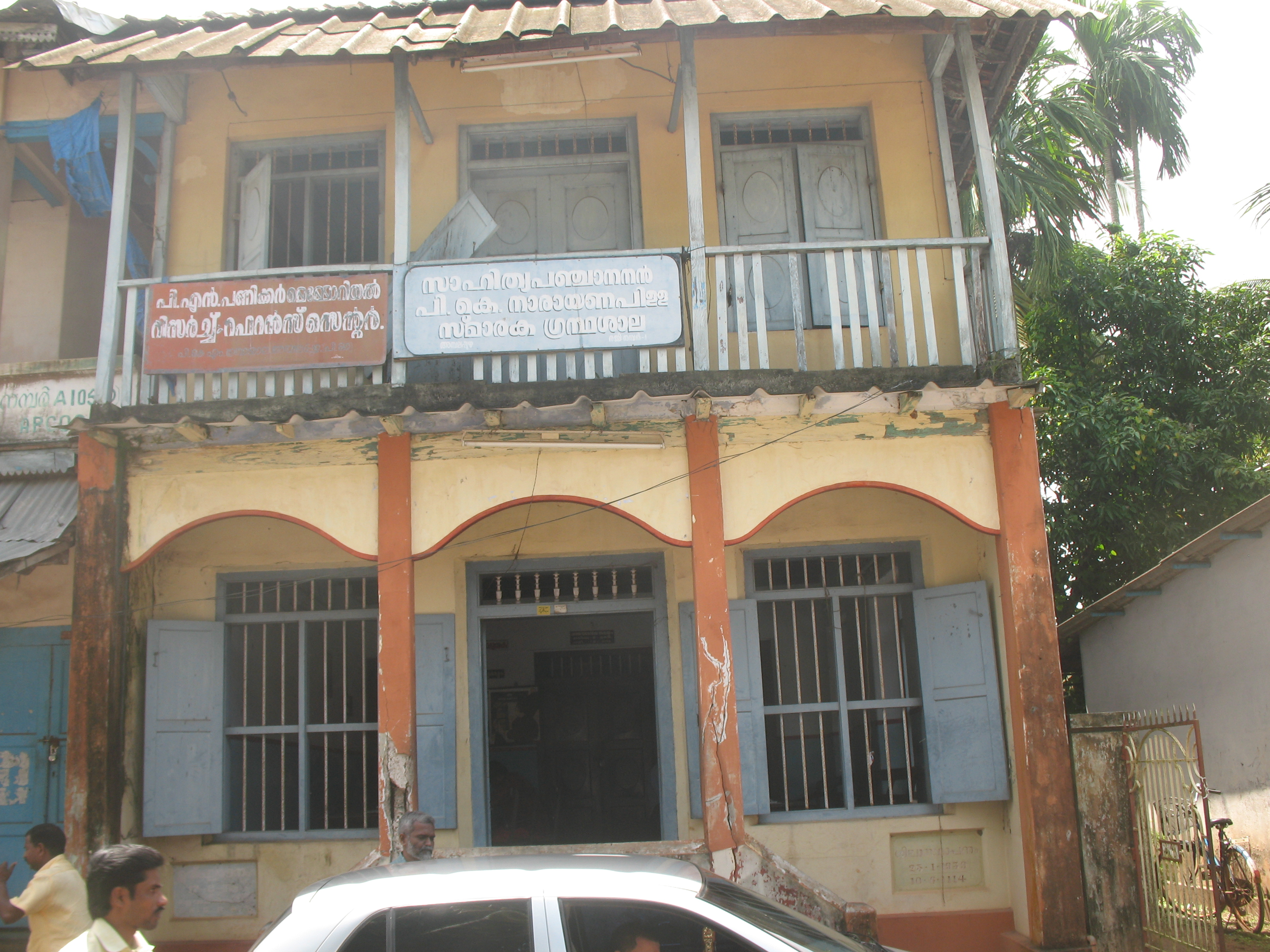 Library